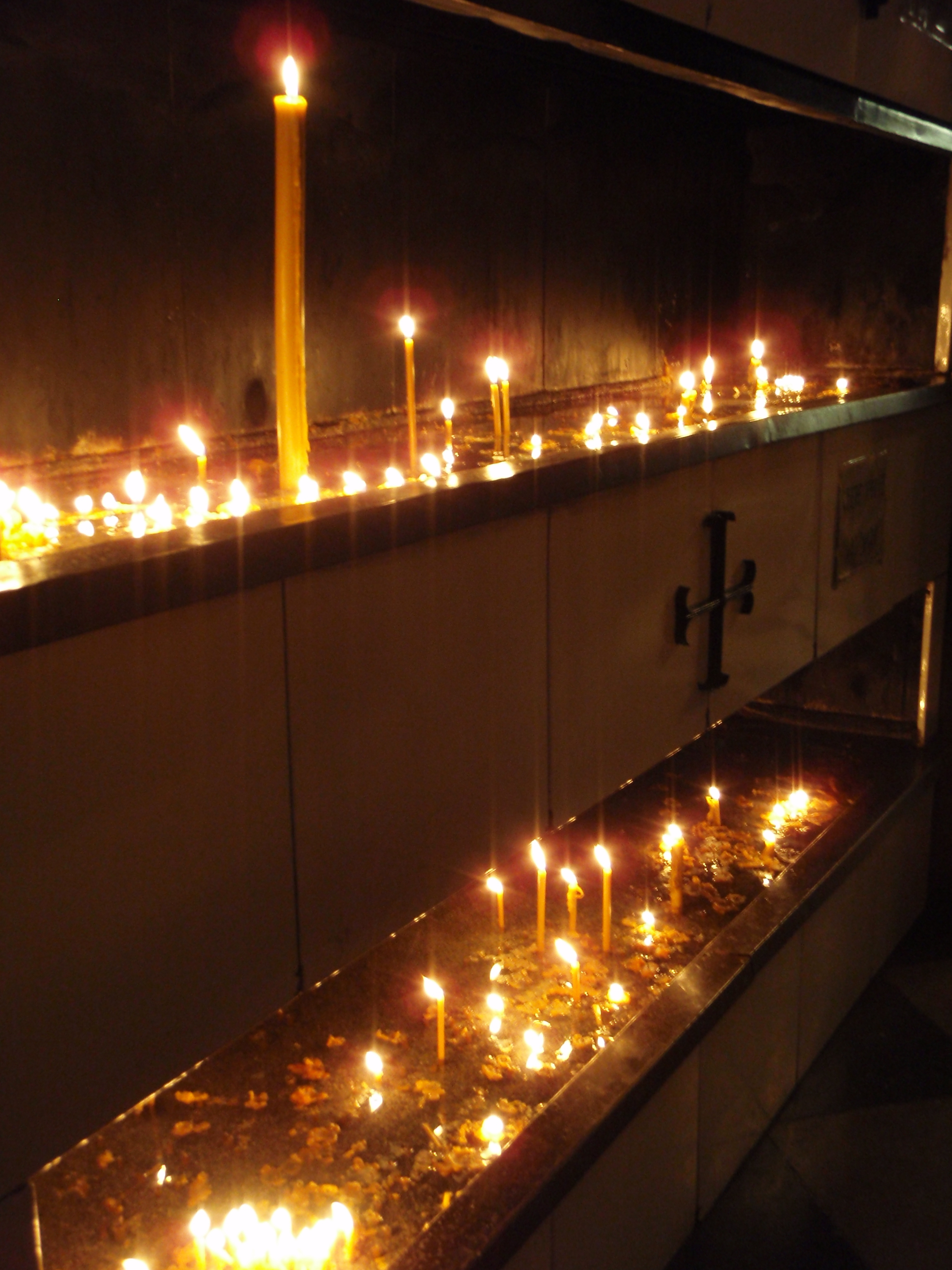 Candleroom in Serbian orthodox church in Ljubljana, Slovenia.